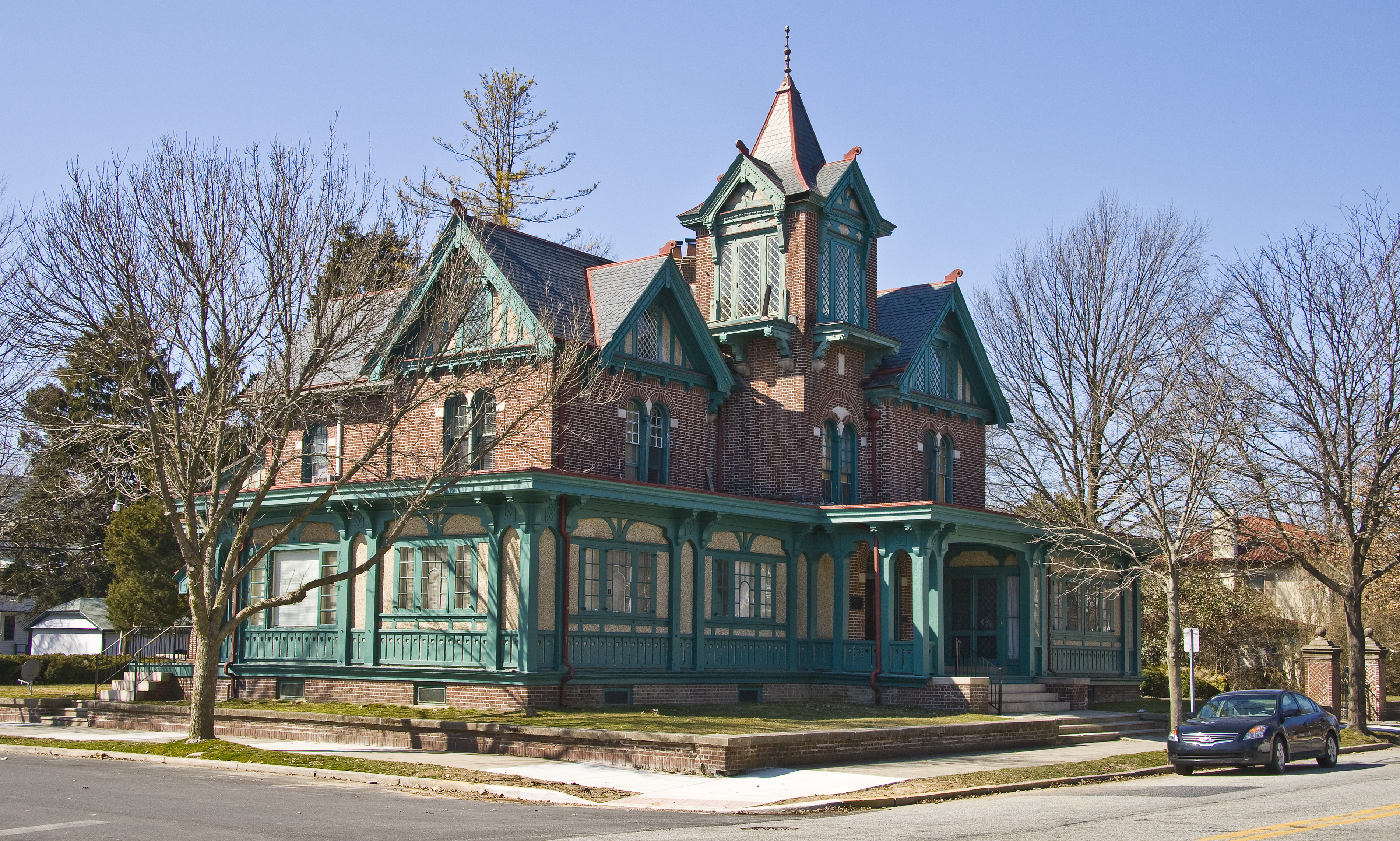 House in the Victorian Dover Historic District, Dover, Delaware, USA